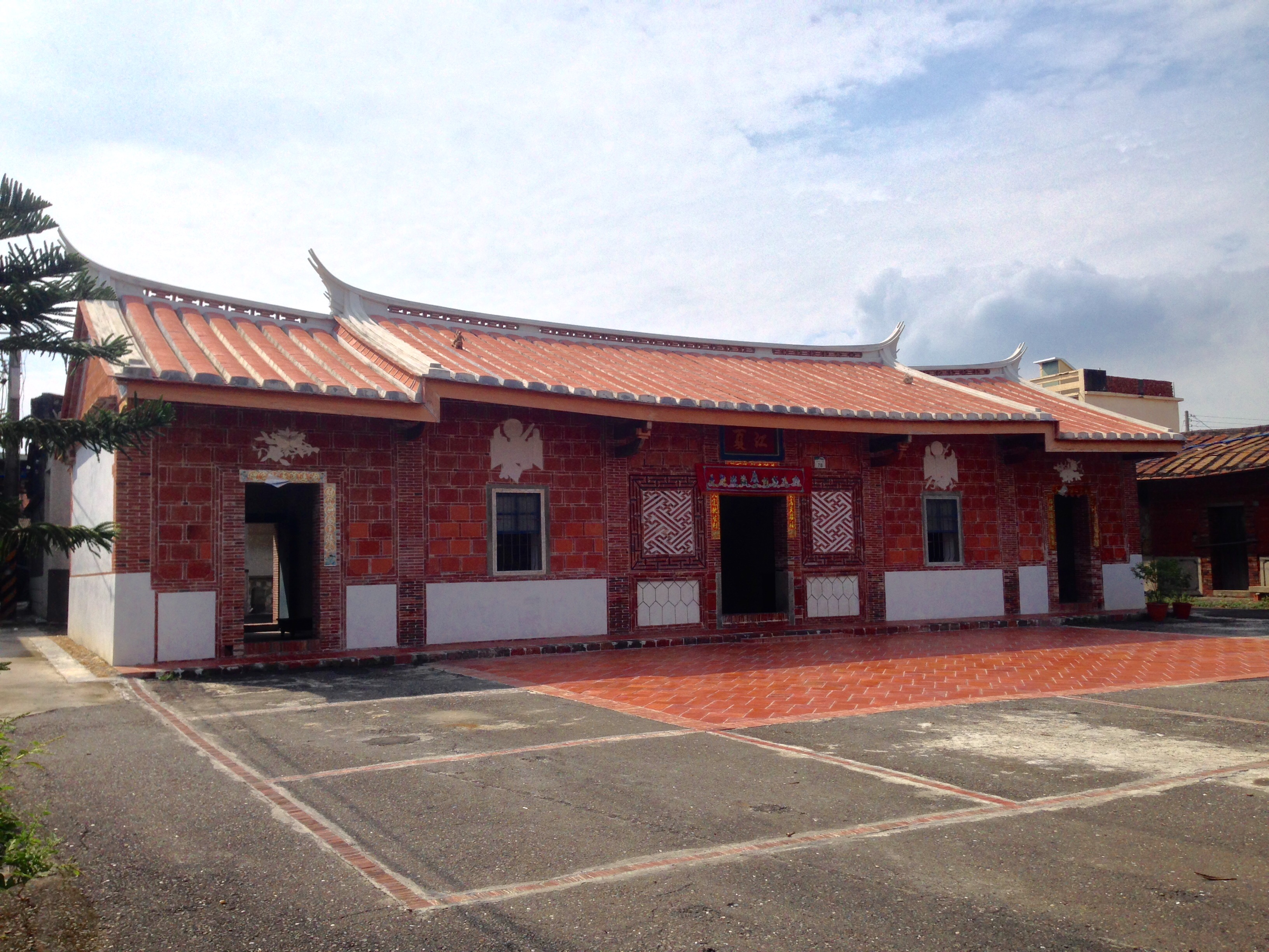 Huang Family Historical Residence中文（台灣）: 林園港埔黃家(江夏派)古厝